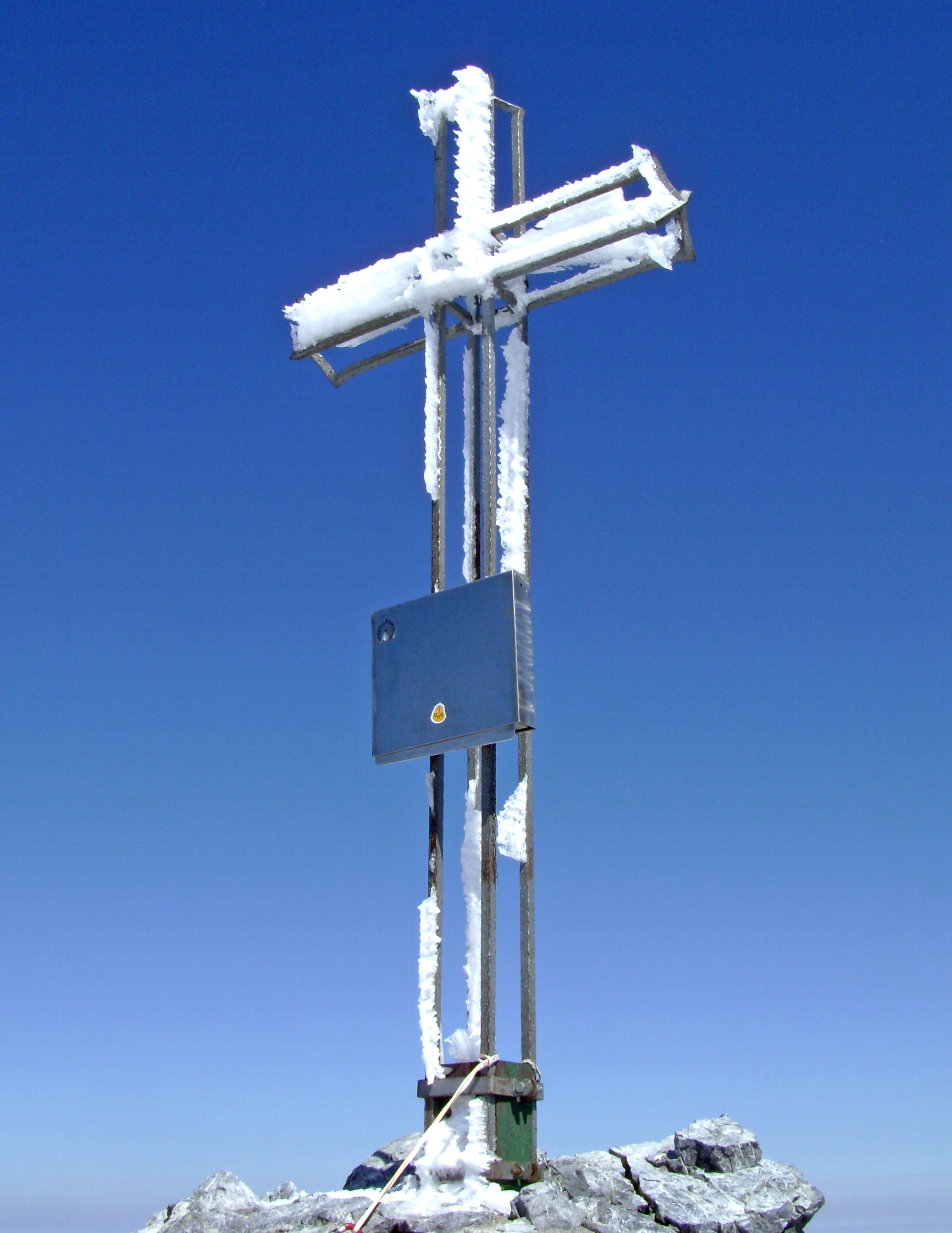 Cross at the Ortler summit